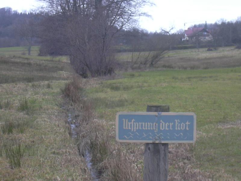 Origin of the Fichtenberger Rot, a small river in southwest Germany